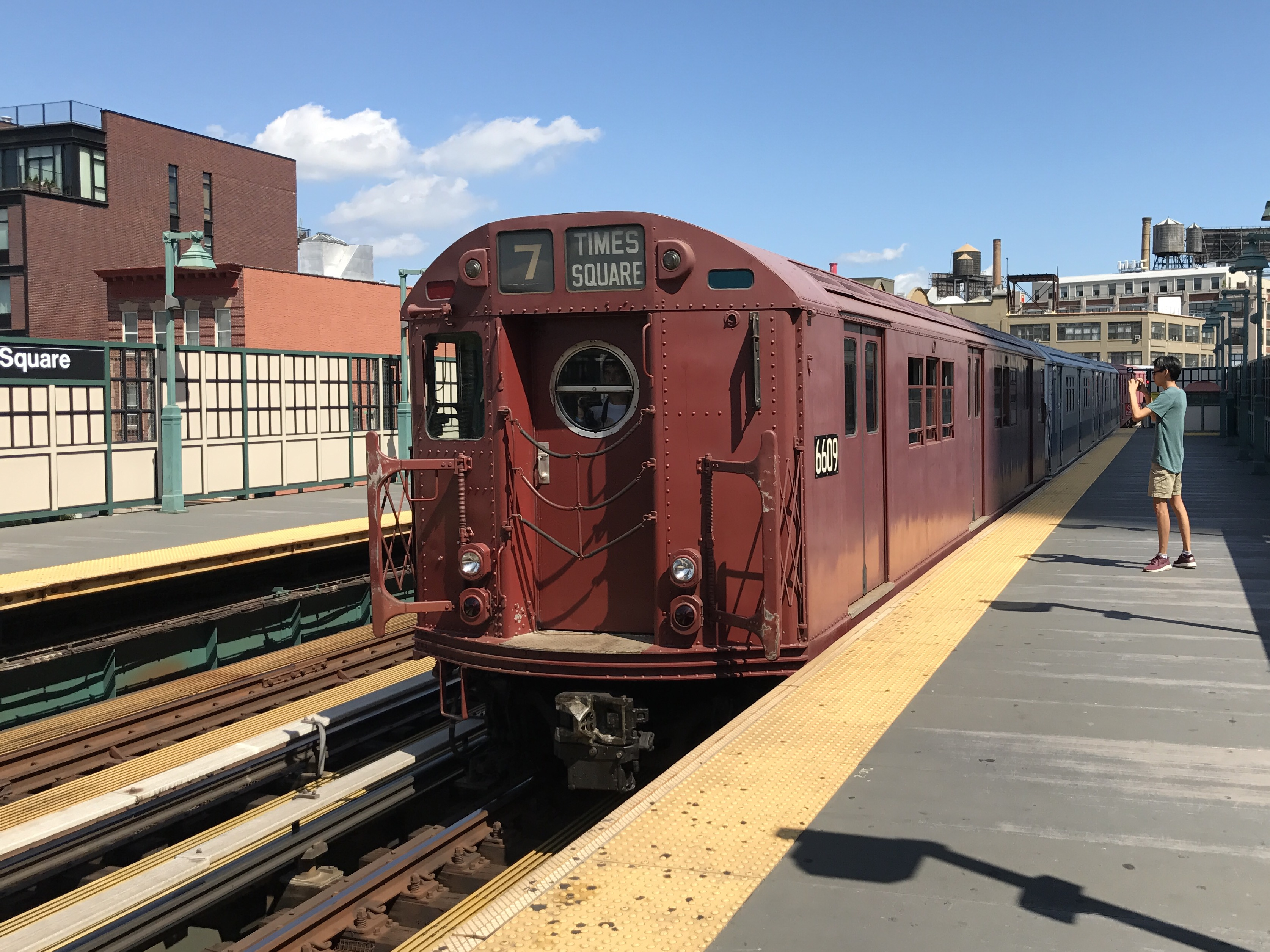 On 8/19/2017, the NYTM ran the Train of Many Colors for a Mets game. Here is it passing Court Square.